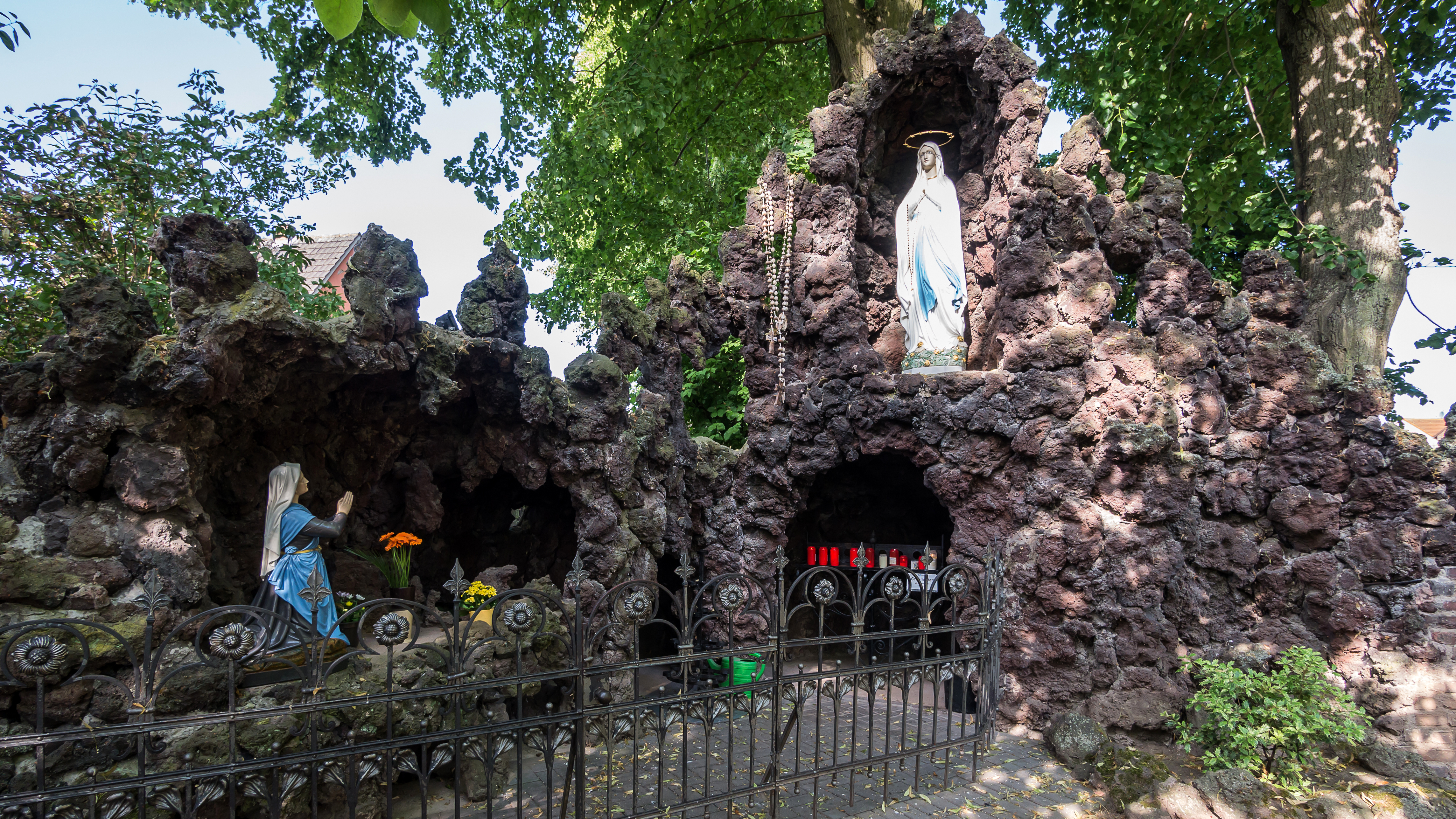 Kirdorf - Theodor-Heuss-Straße 46 Kirche, Alt-Sankt-Willibrordus Lourdes Grotte IIThis is a photograph of an architectural monument., no. 81